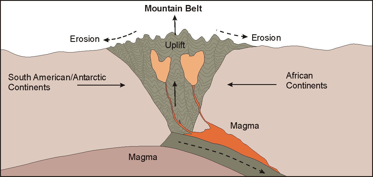 Schematic section of granite magma intrusion into and folding of Malmesbury rocks.